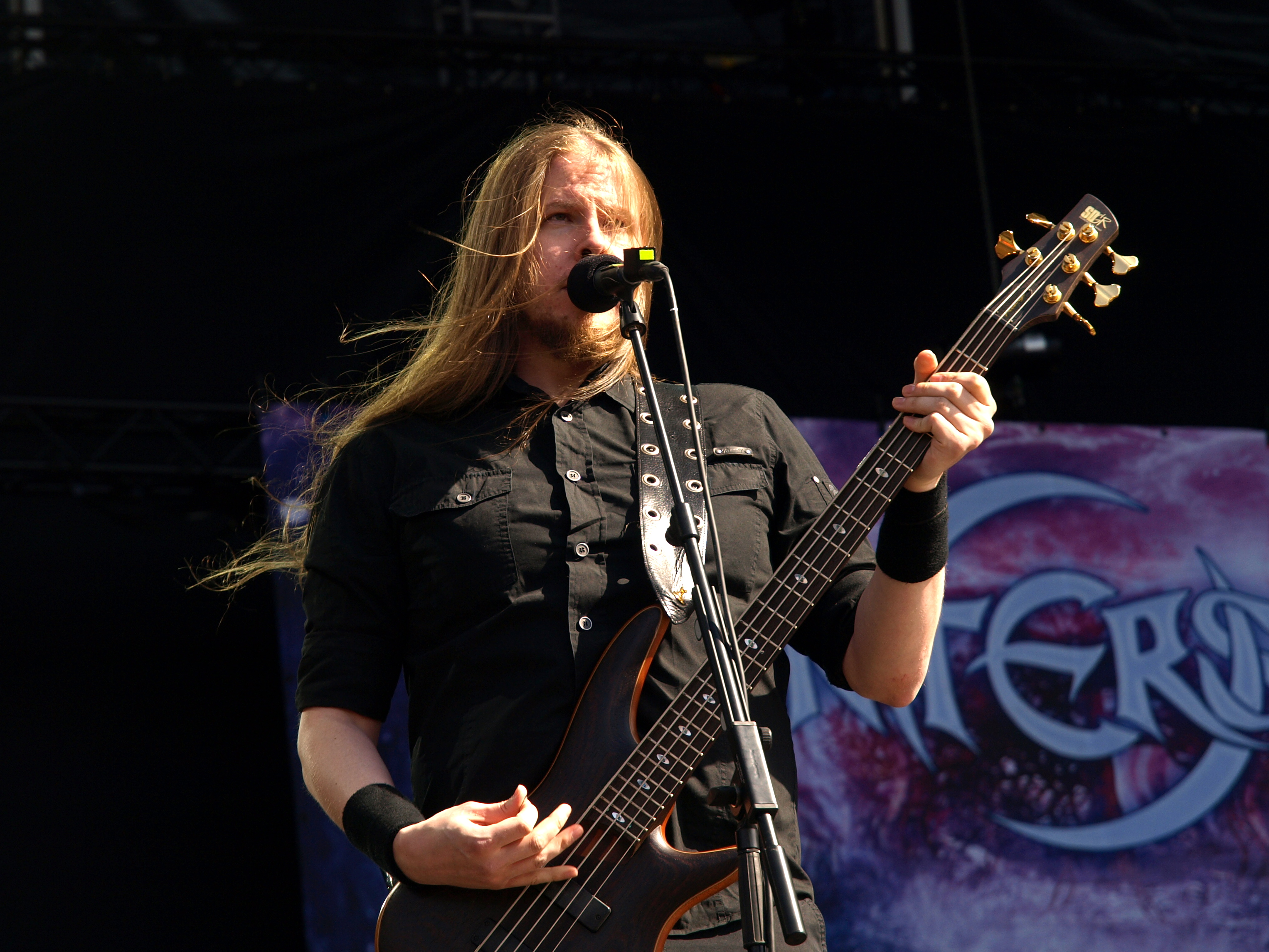 Finnish metal band Wintersun live at Tuska Open Air 2013